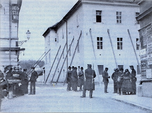 Klaris Monastery (today Bank of Slovenia) in 1895